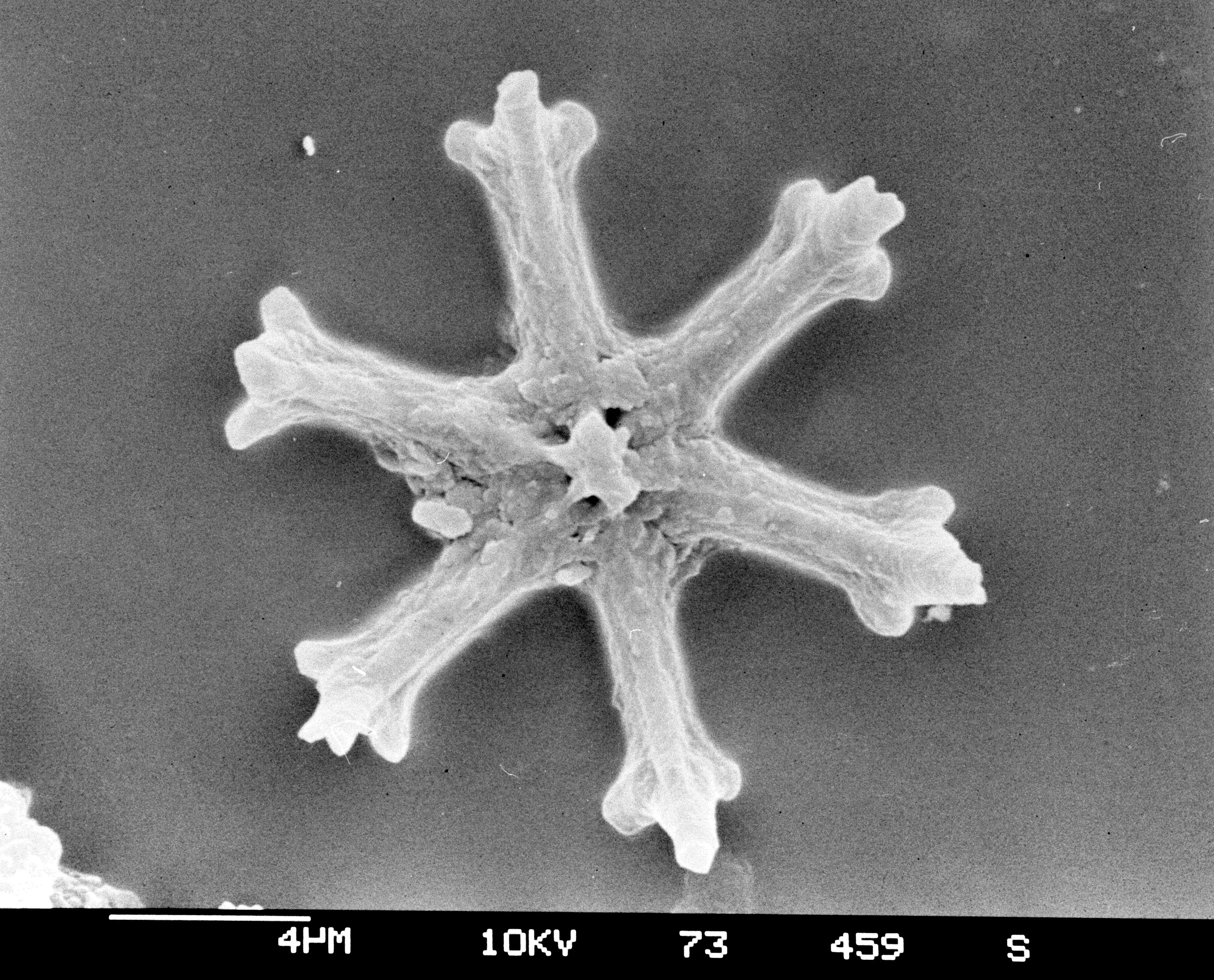 Microfossils from a sediment core of the Deep Sea Drilling Project (DSDP), Discoaster surculus